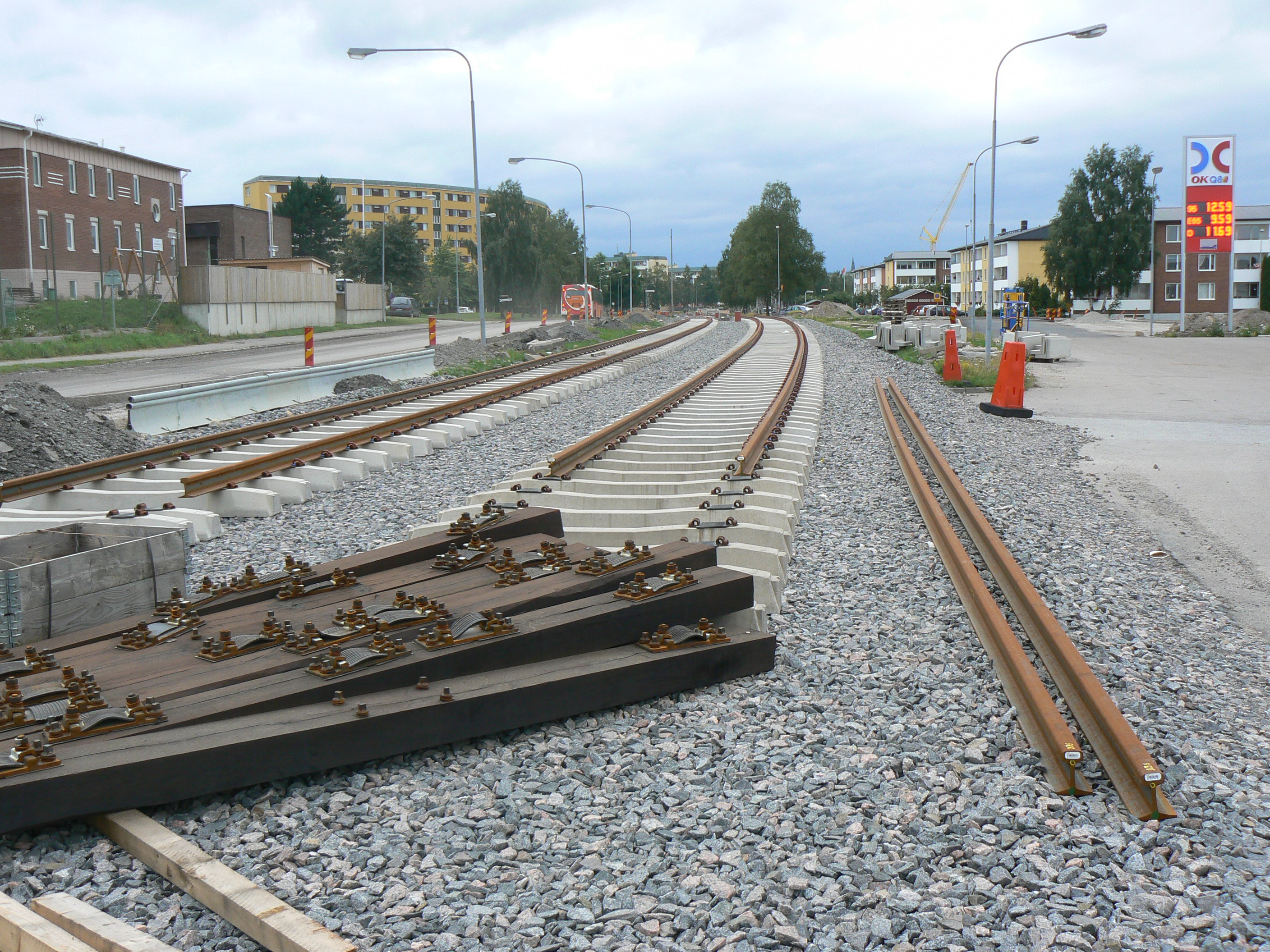 The new tramway line under construction in Norrköping, July 2009.